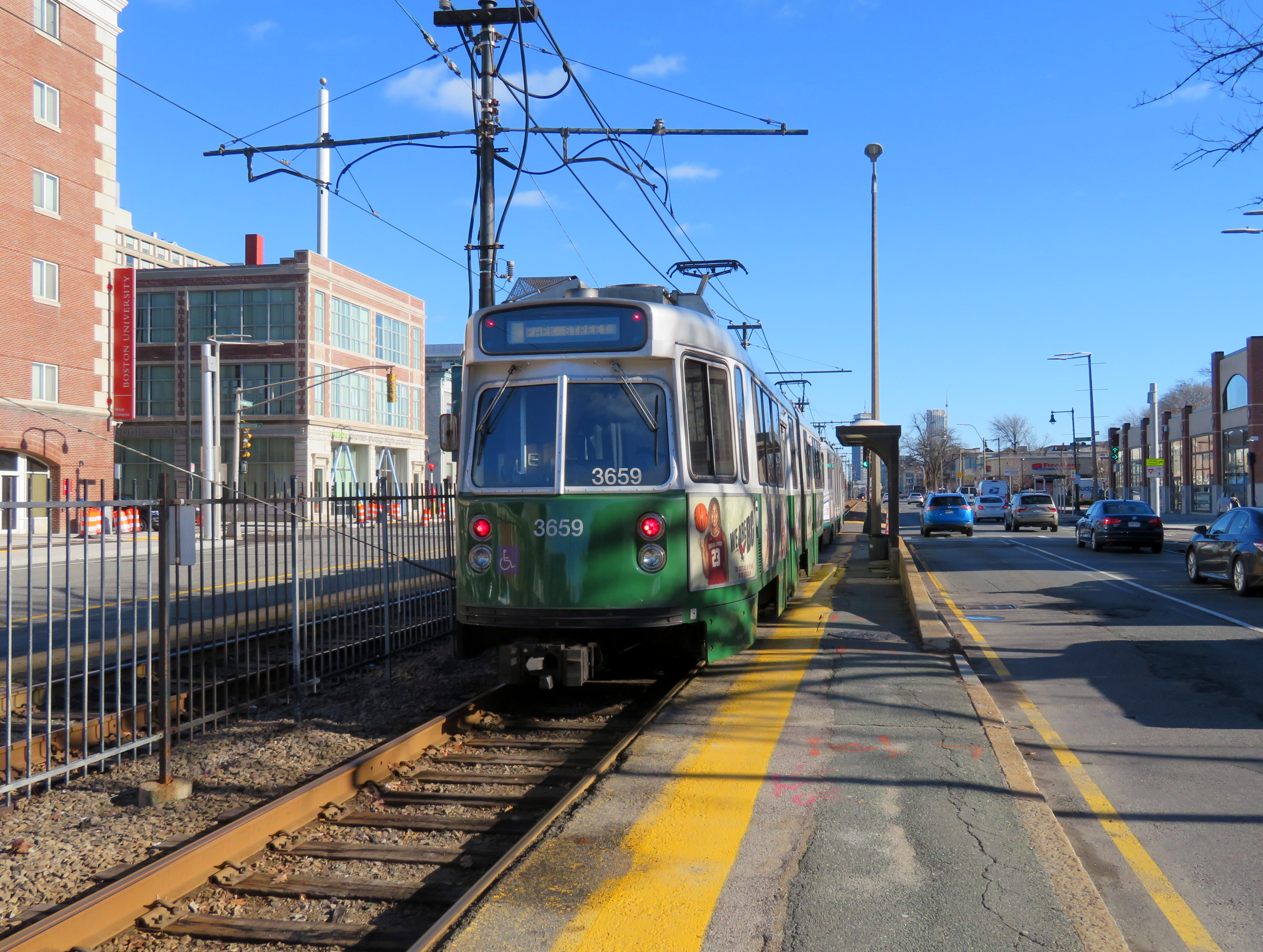 An inbound train at Babcock Street station in December 2018